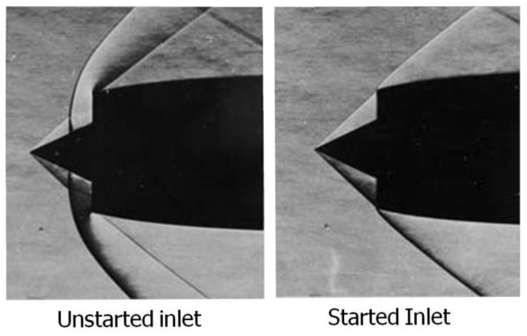 Shock wave structure about a supersonic axisymmetric cone inlet. Left image shows unstarted flow. Right image shows started flow.